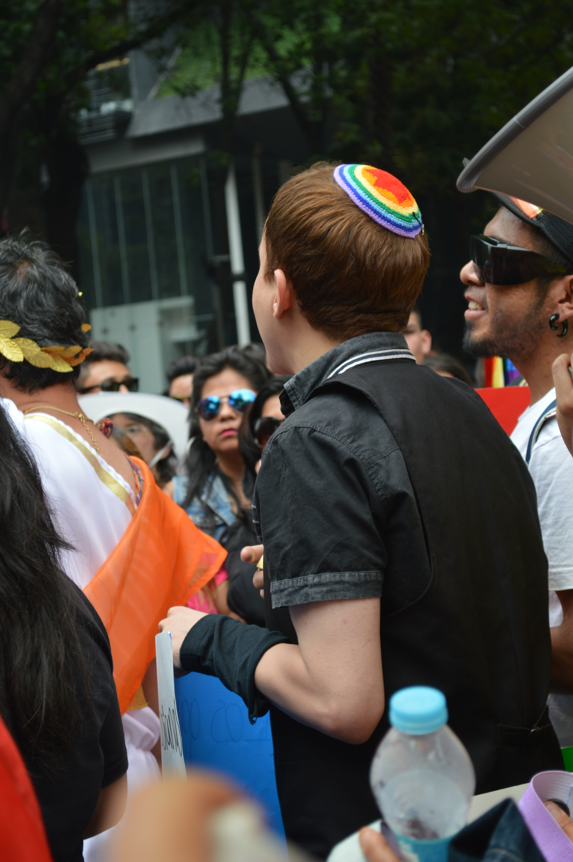 Scene from the 2015 gay pride parade on Refoma in Mexico City